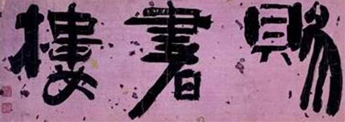 The Korean calligraphy titled "Saseoru" was written by Kim Jeonghee